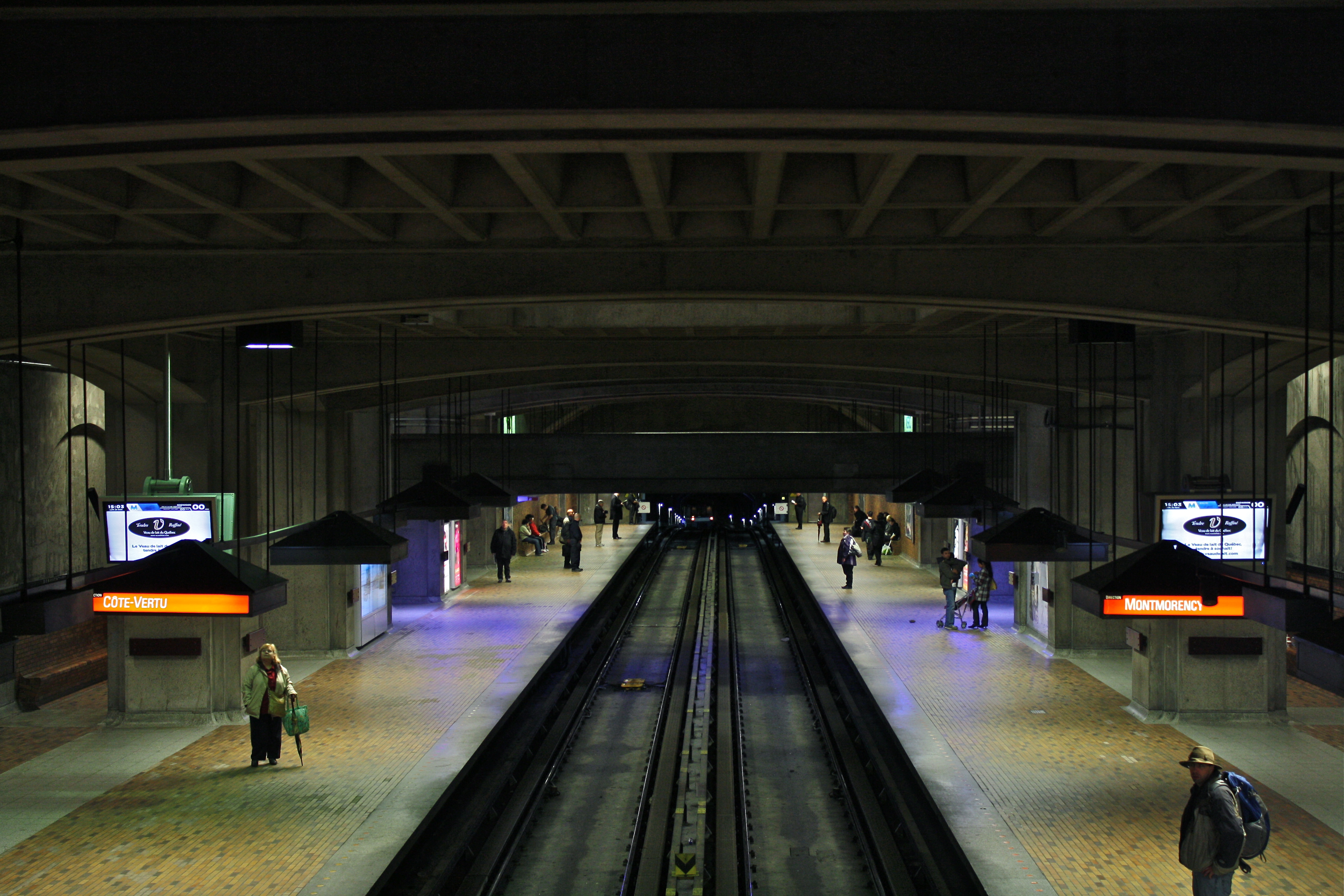 Bonaventure Metro station platform.